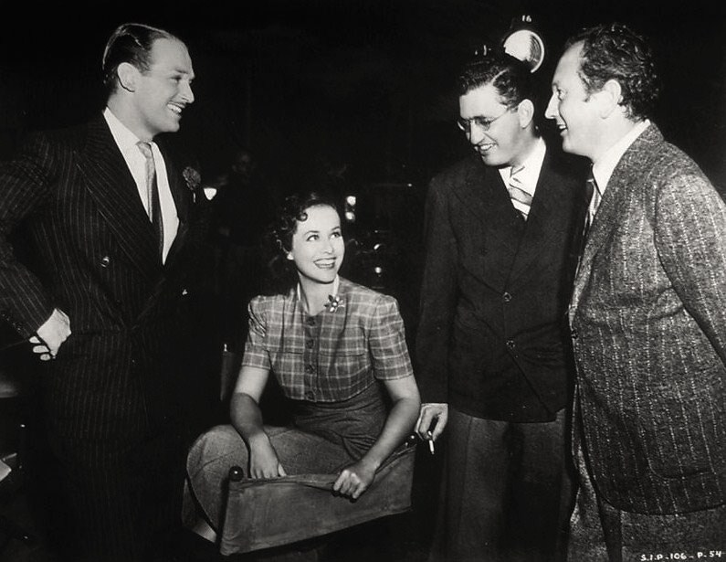 L. to R. : Douglas Fairbanks Jr., Paulette Goddard, David O. Selznick (producer), and Richard Wallace (director) on the set of the American film The Young in Heart (1938) - publicity still.